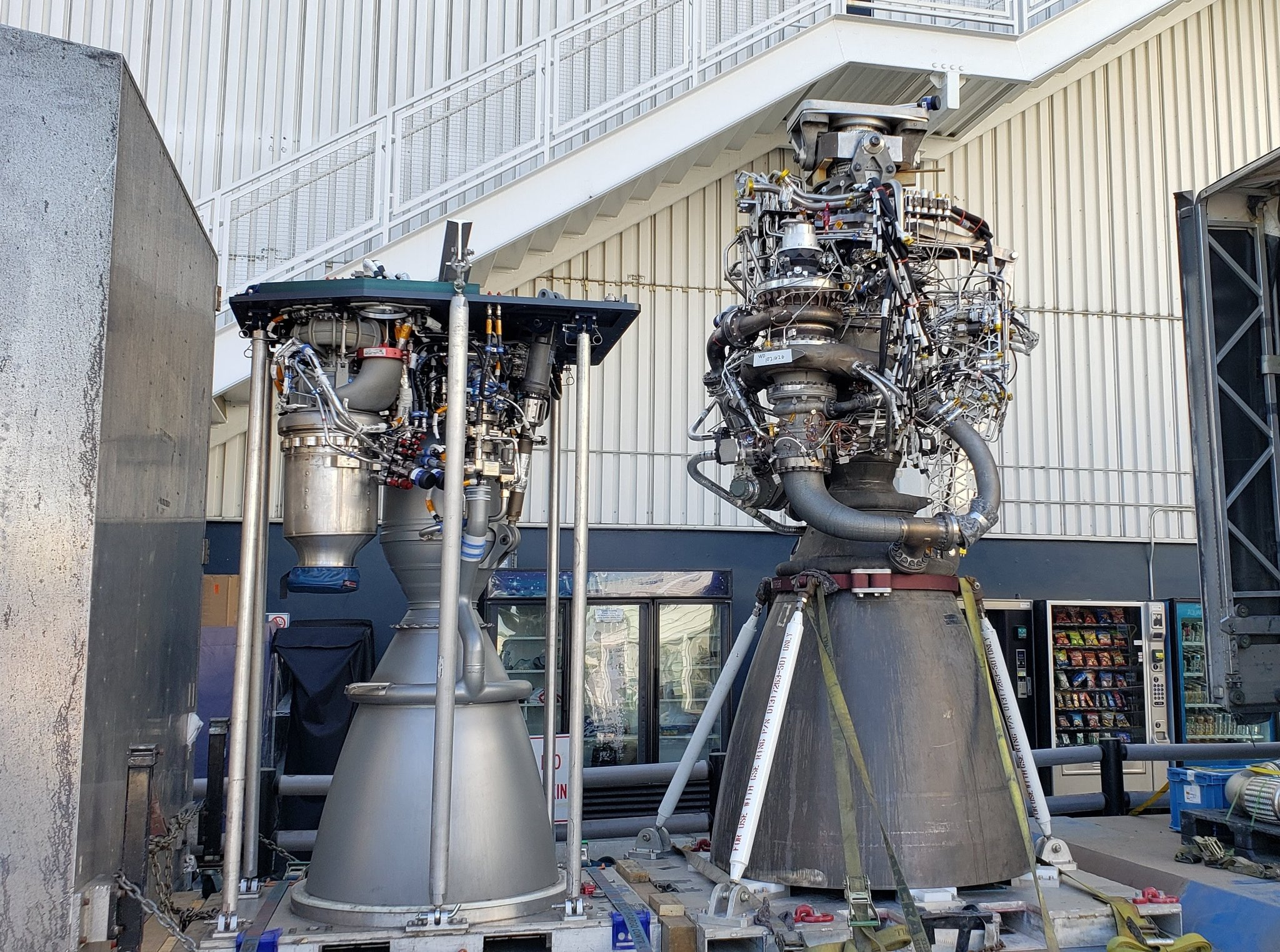 SpaceX Merlin (left) and sea-level Raptor (right) at Hawthorne